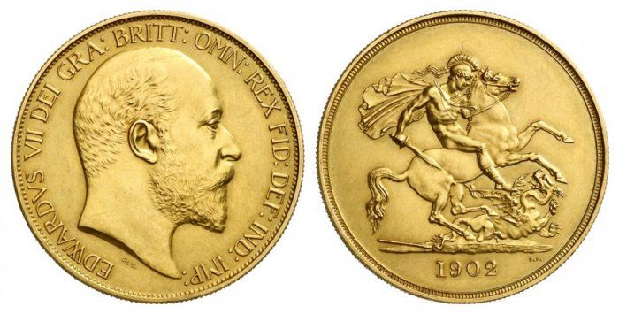 matte proof 5 pound Edwards VII